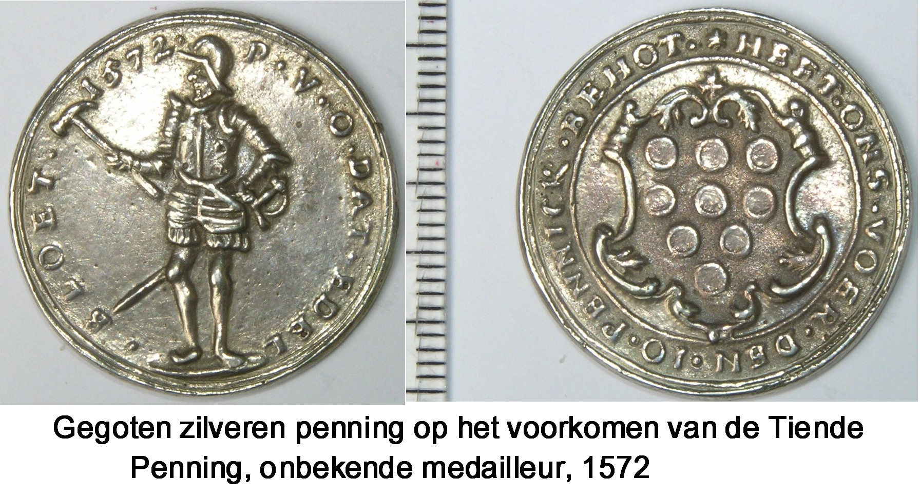 Zilveren penning, 1572, op de verlossing van de 10e penning.